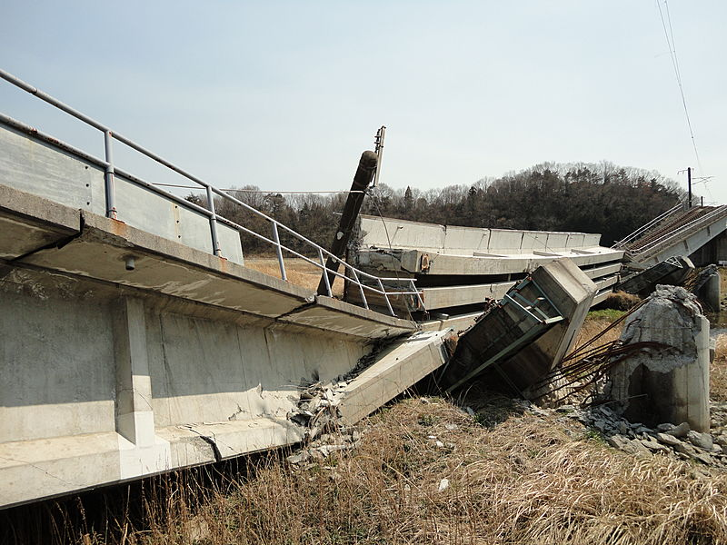 A railroad overpass in Futaba destroyed by the March 11 Magnitude 9.0 earthquake, April 13, 2011 (VOA Photo S. Herman)